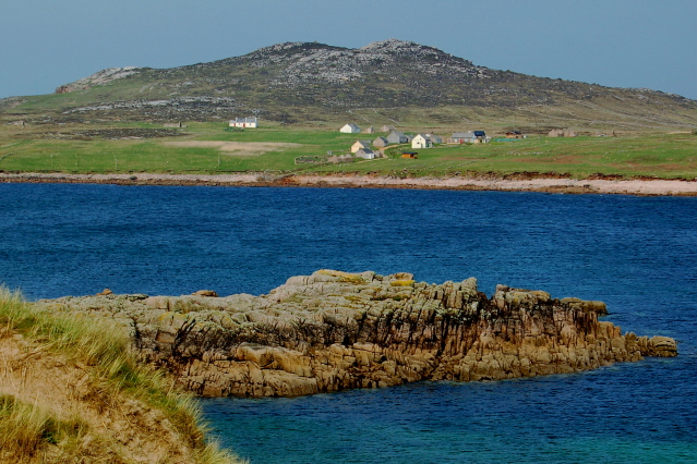 Owey Island - Abandoned and summer homes